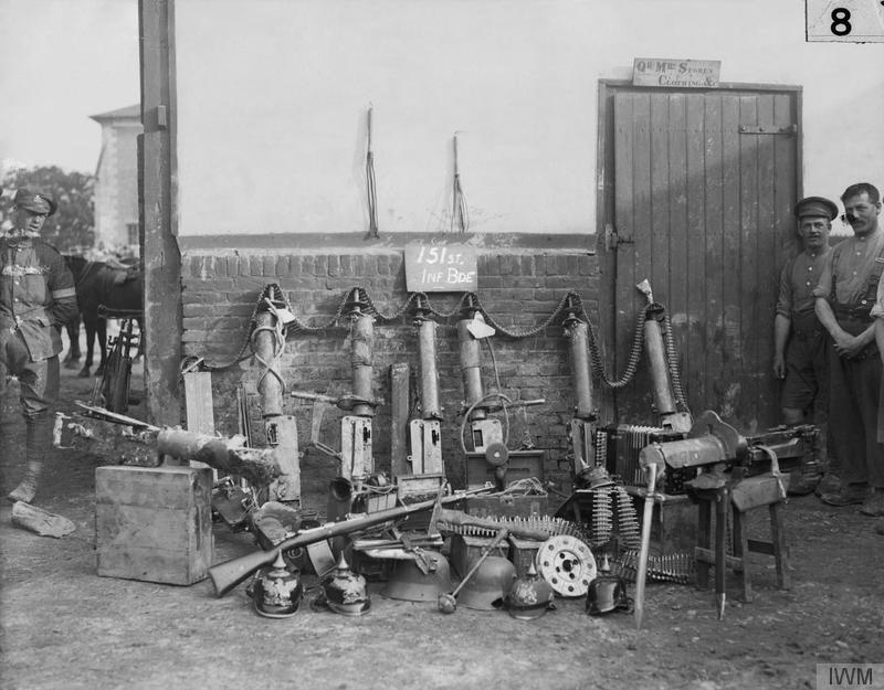 German machine guns and other trophies captured during the opening days of the Battle of the Somme in July 1916. Battle of Albert. German machine guns and other trophies captured by the 151st Infantry Brigade, on 1st July 1916.